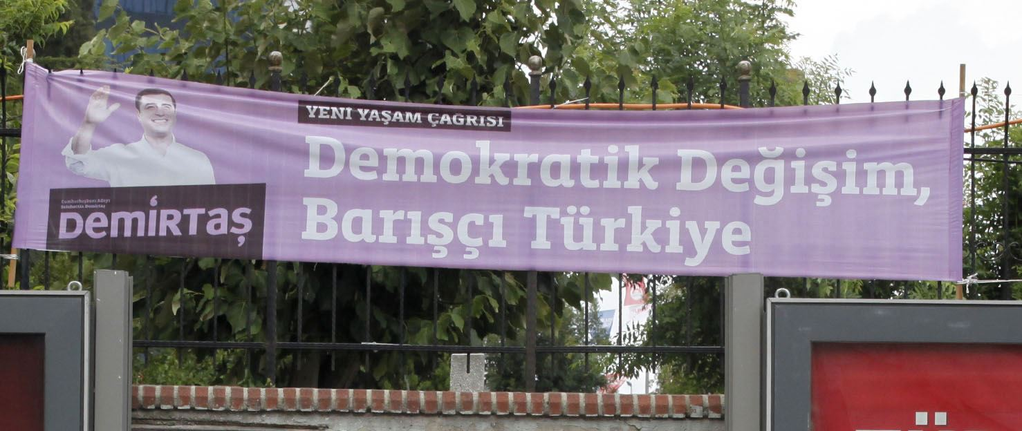 Billboards of Turkish Presidential canditates Recep Tayyip Erdoğan (L) and Ekmeleddin İhsanoğlu (R), Mecidiyeköy, Istanbul.